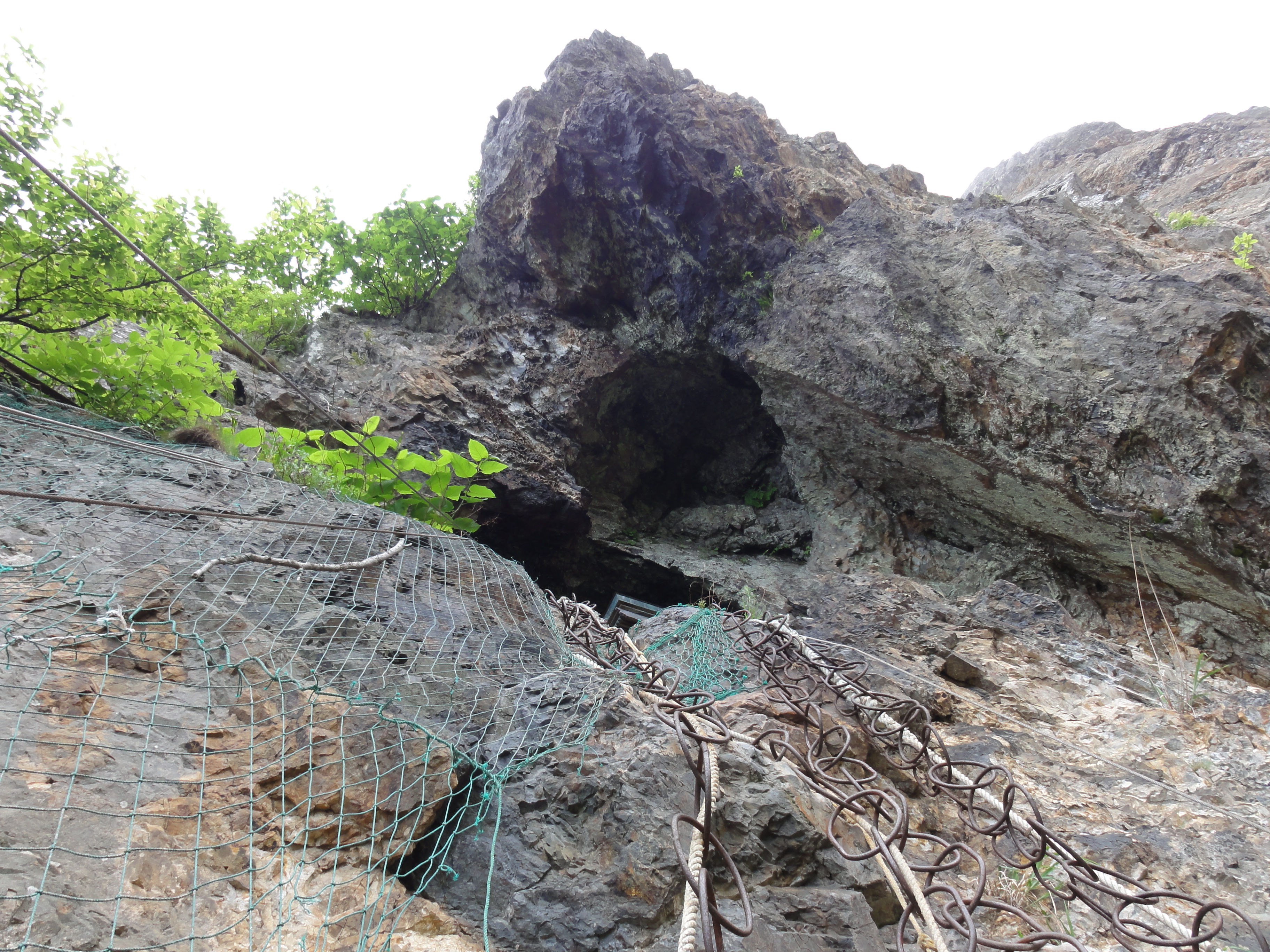 Honden of Otasan shirne,Hokkaido Pref., Japan